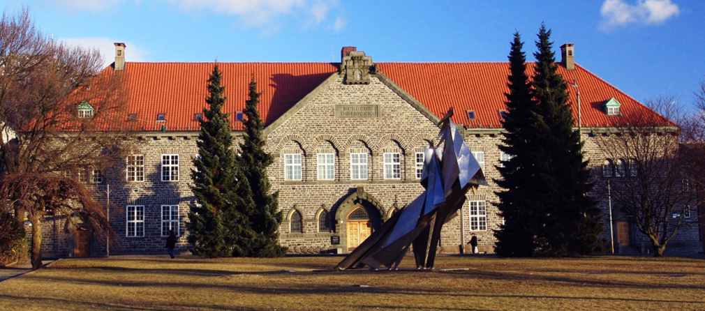 Edit of Image:Bgoffbibl.jpg. Straightened and corrected the white balance.